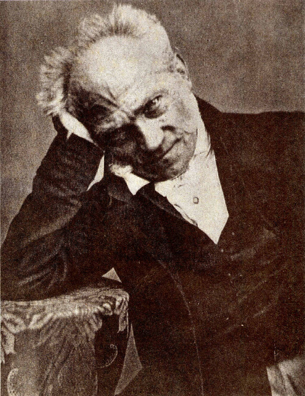 Picture from Arthur Schopenhauer